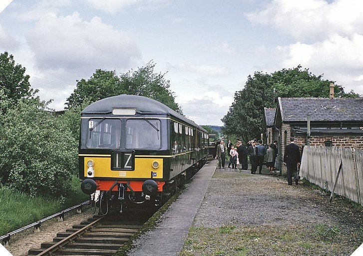 Special rail excursion at Fyvie en route to Turriff, Aberdeenshire, Scotland in 1964